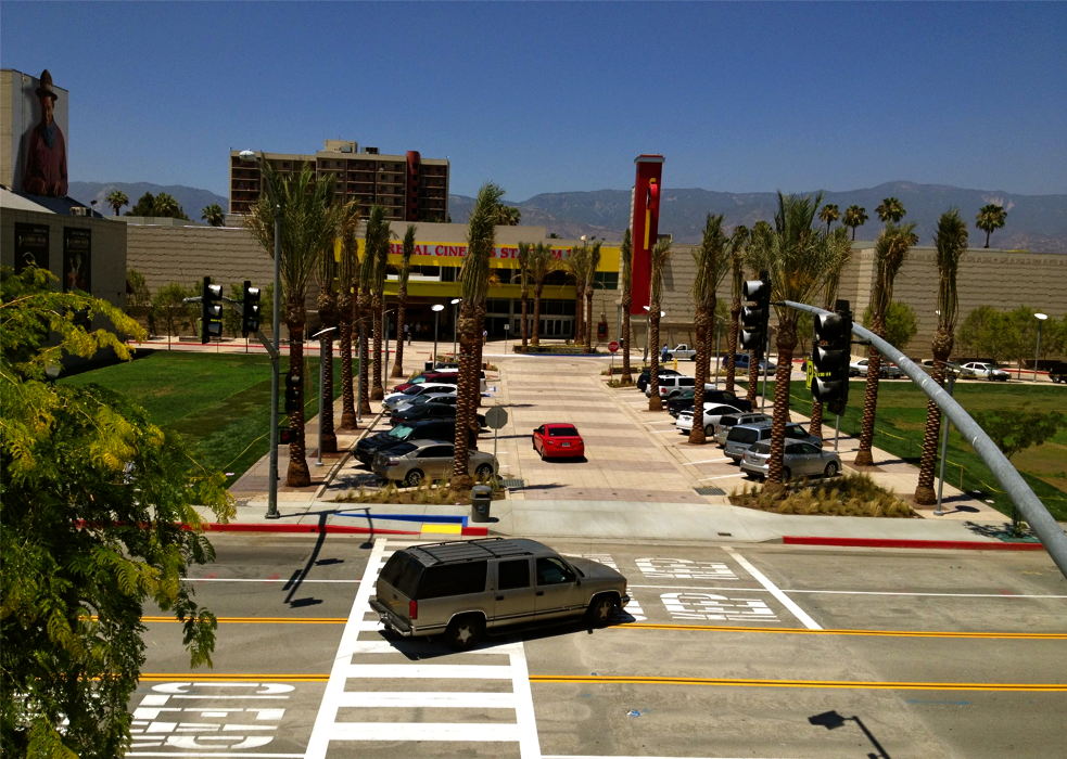 Regal Cinemas Theater Square 14 & RPX in Downtown San Bernardino.